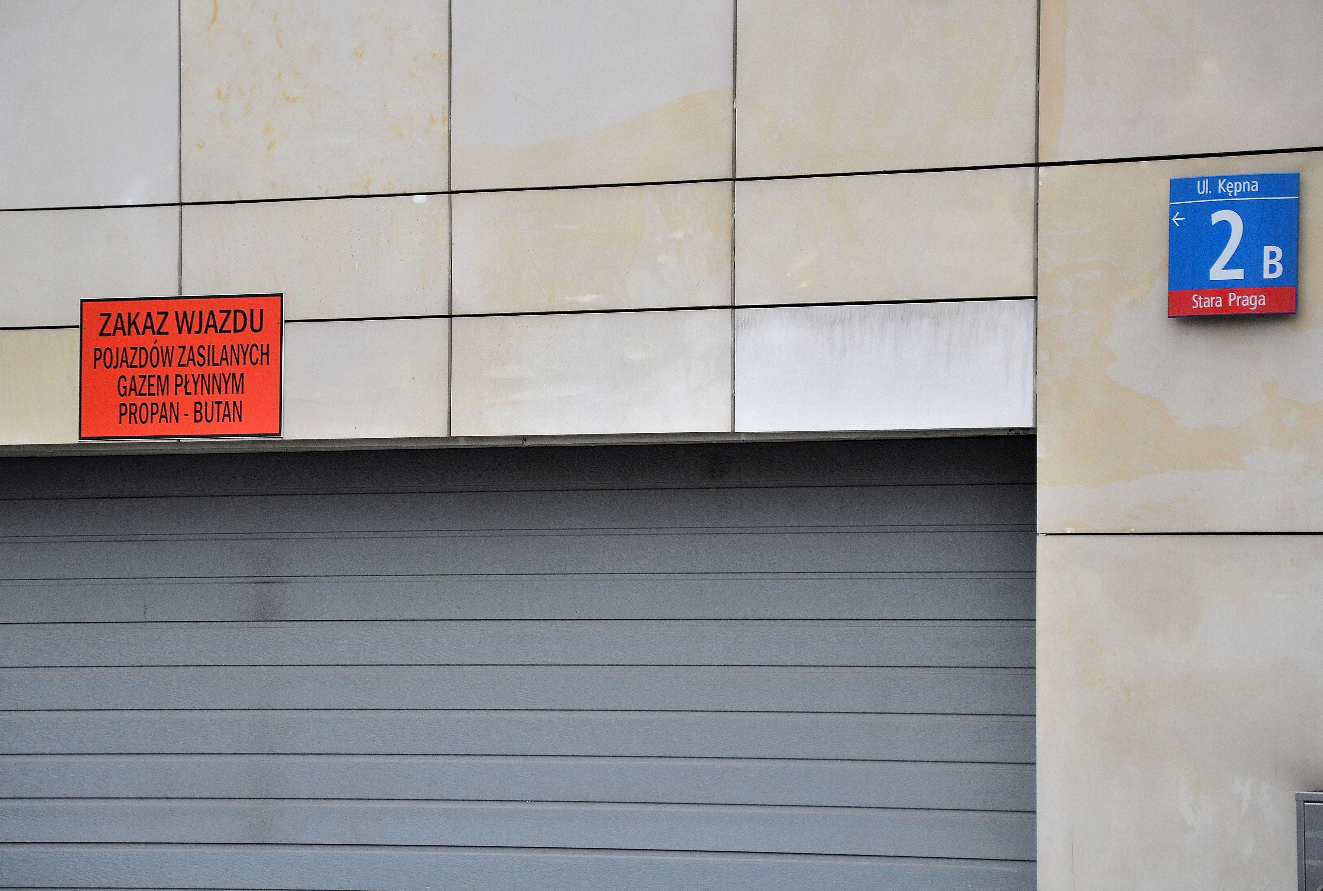 Plaque on the facade of a builing at 2b Kępna Street in Warsaw